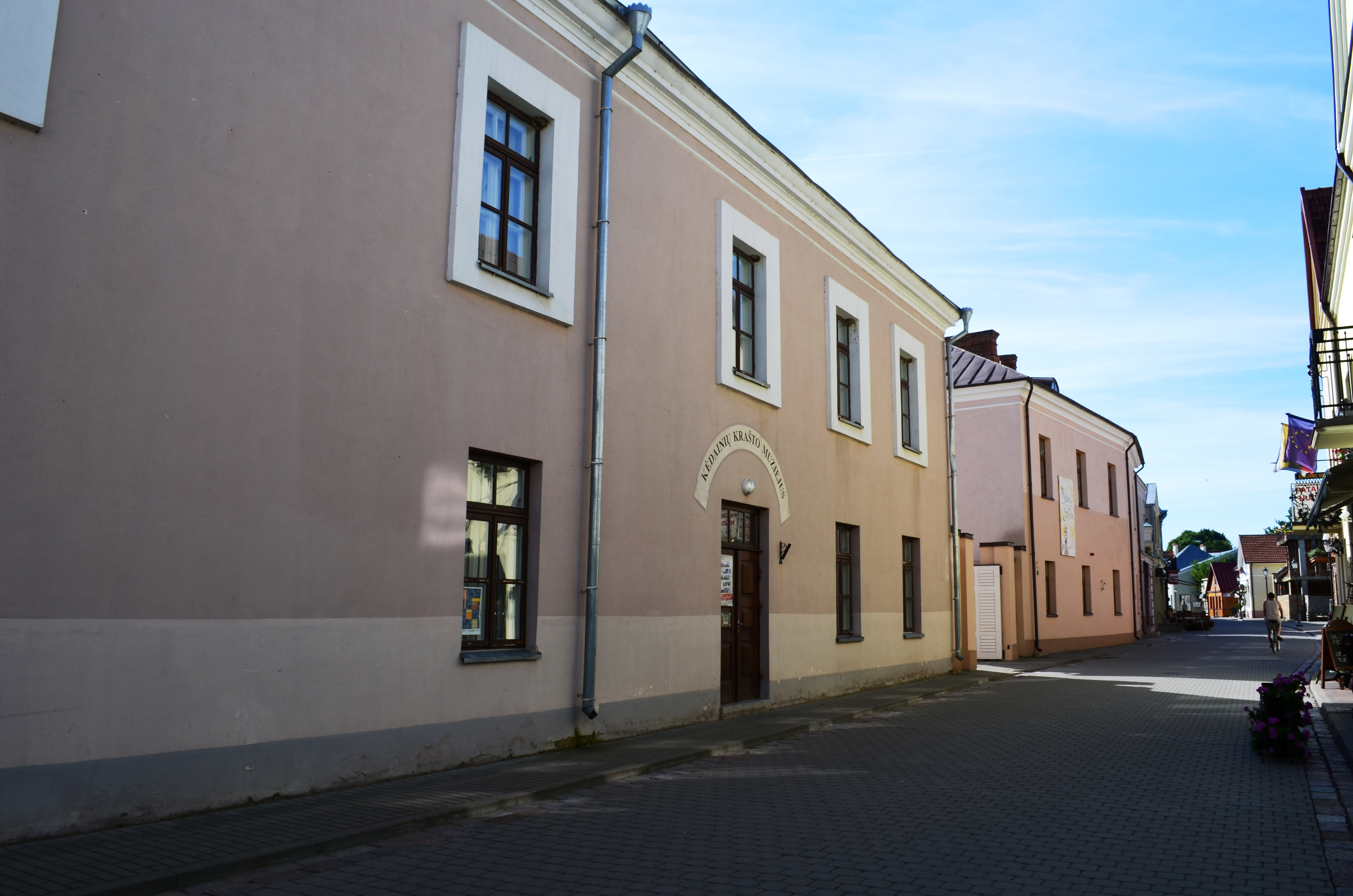 Kėdainiai regional museum in Didžioji street. Kėdainiai, Lithuania